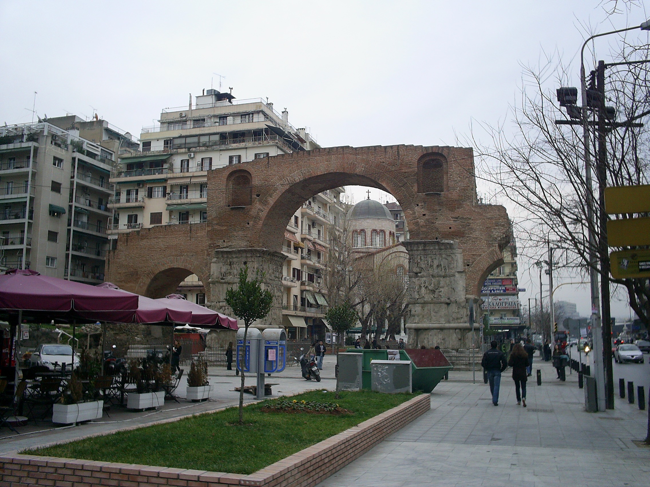 Galerius Arch in Thessaloniki, Macedonia, Greece